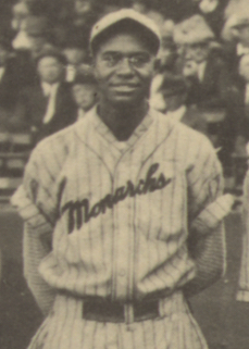 Frank Duncan at the 1924 Colored World Series. LOC states here that there are no restrictions on use of this image, therefore it is PD. This file has been extracted from another file: 1924 Negro League World Series.jpg